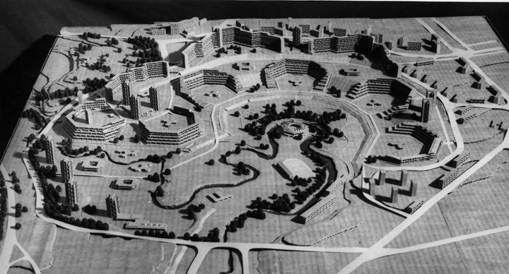 Архитектурный проект застройки Тушинской Чаши в Москве работы Р.П. Алдониной